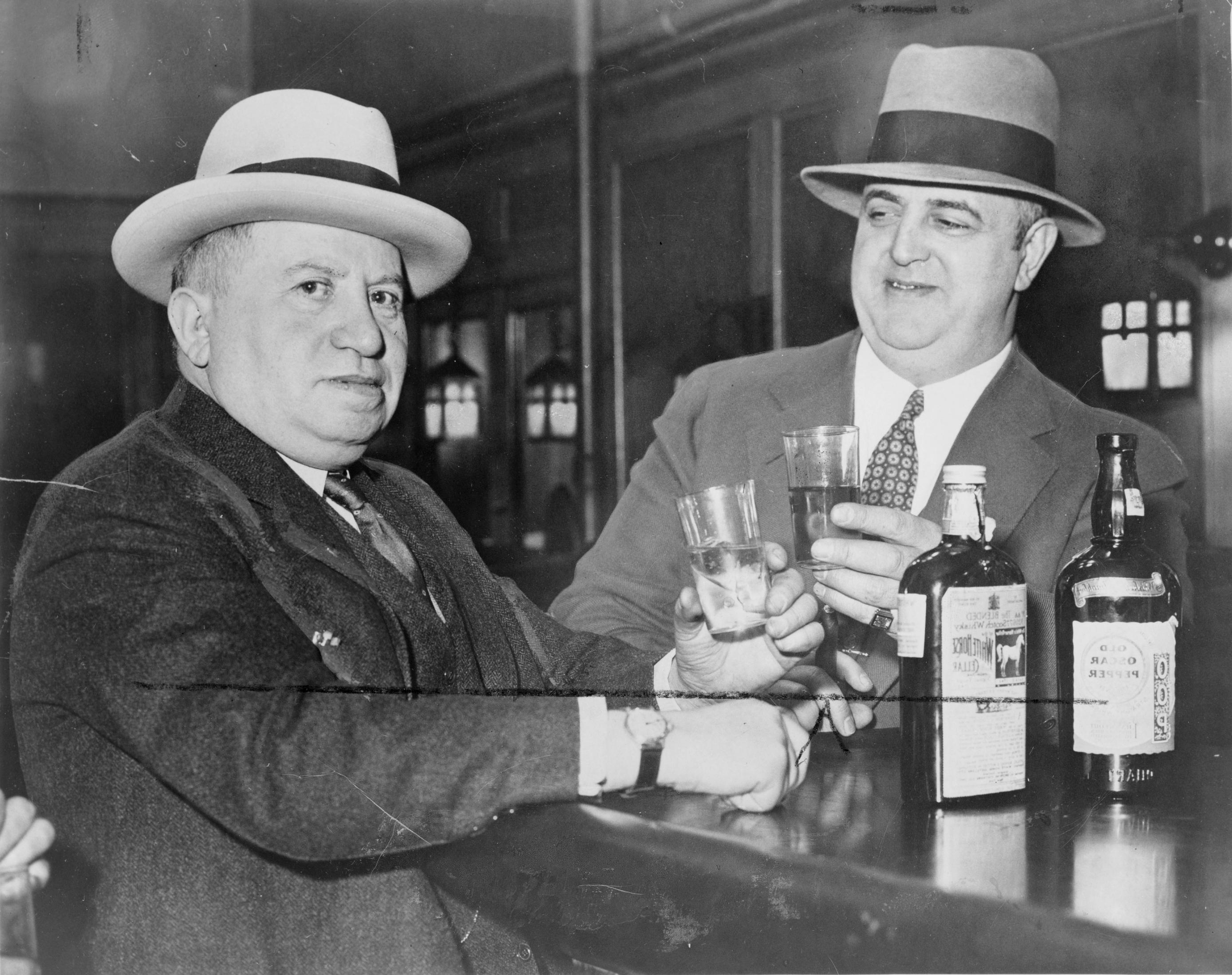 Izzy Einstein and Moe Smith, former police officers during Prohibition, sharing a toast in a New York Bar.